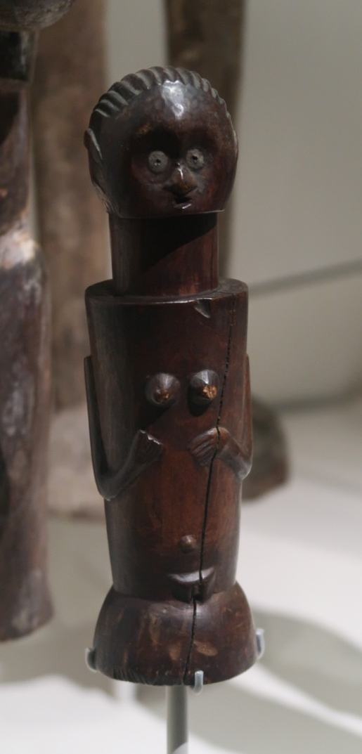 Statuette mana hiti . Late 19th century. Tanzania. Population Zaramo or Doë. Wood, metal. Museum of Confluences. Deposit of the Pontifical Mission Societies, Lyon. inv. D 979-3-383. "Used during the initiation of young girls, these statuettes were also worn by women who wanted to conceive a child."